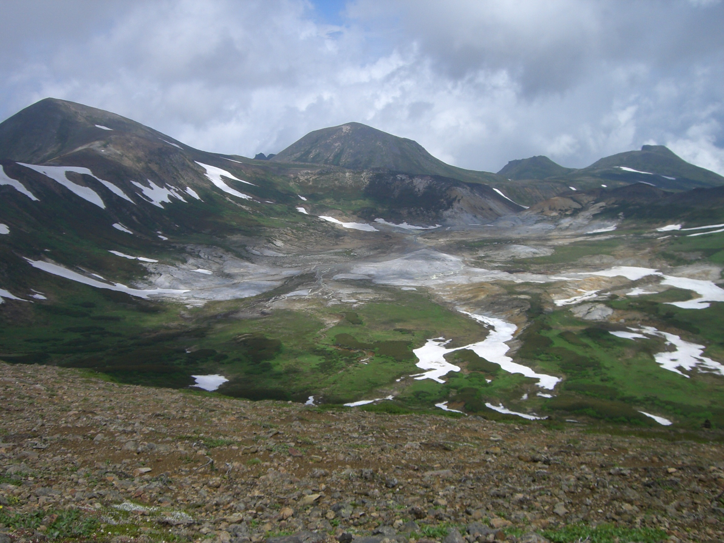 Ohachidaira caldera seen from the Southwest in Daisetsu volcano, Hokkaido, Japan.